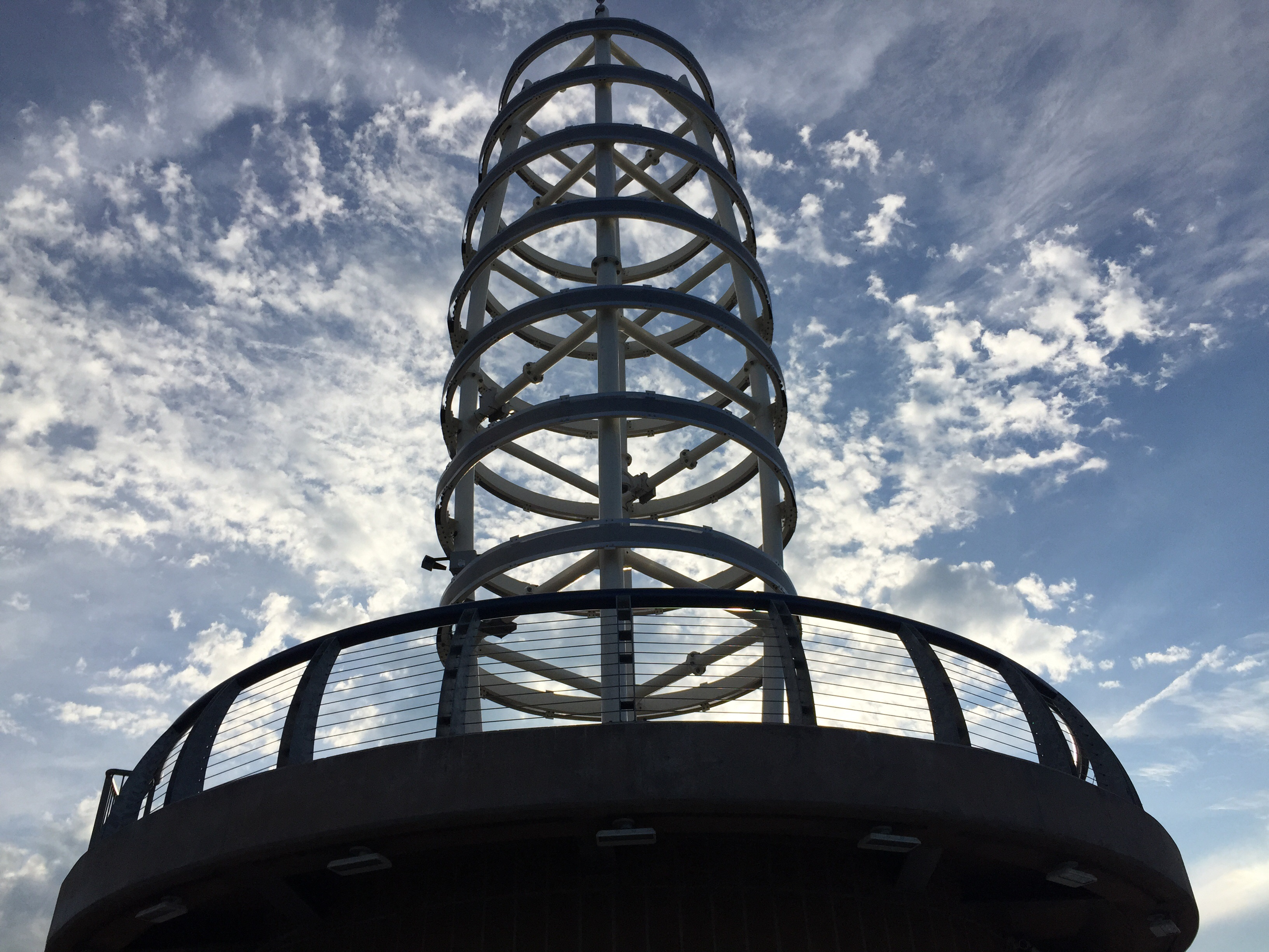 Brant street pier